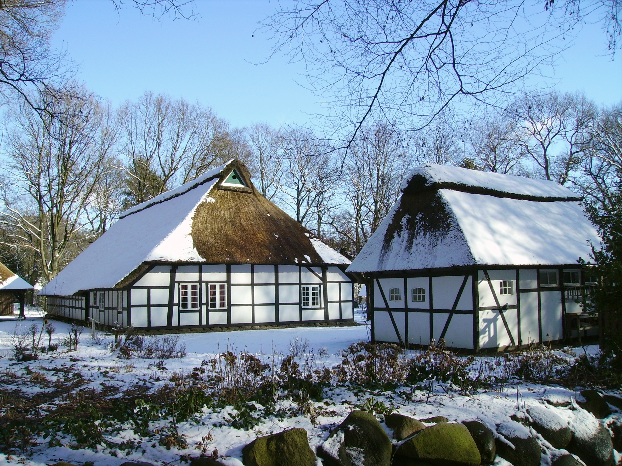 North German farmhouses in the park of Speckenbüttel in Bremerhaven, Germany